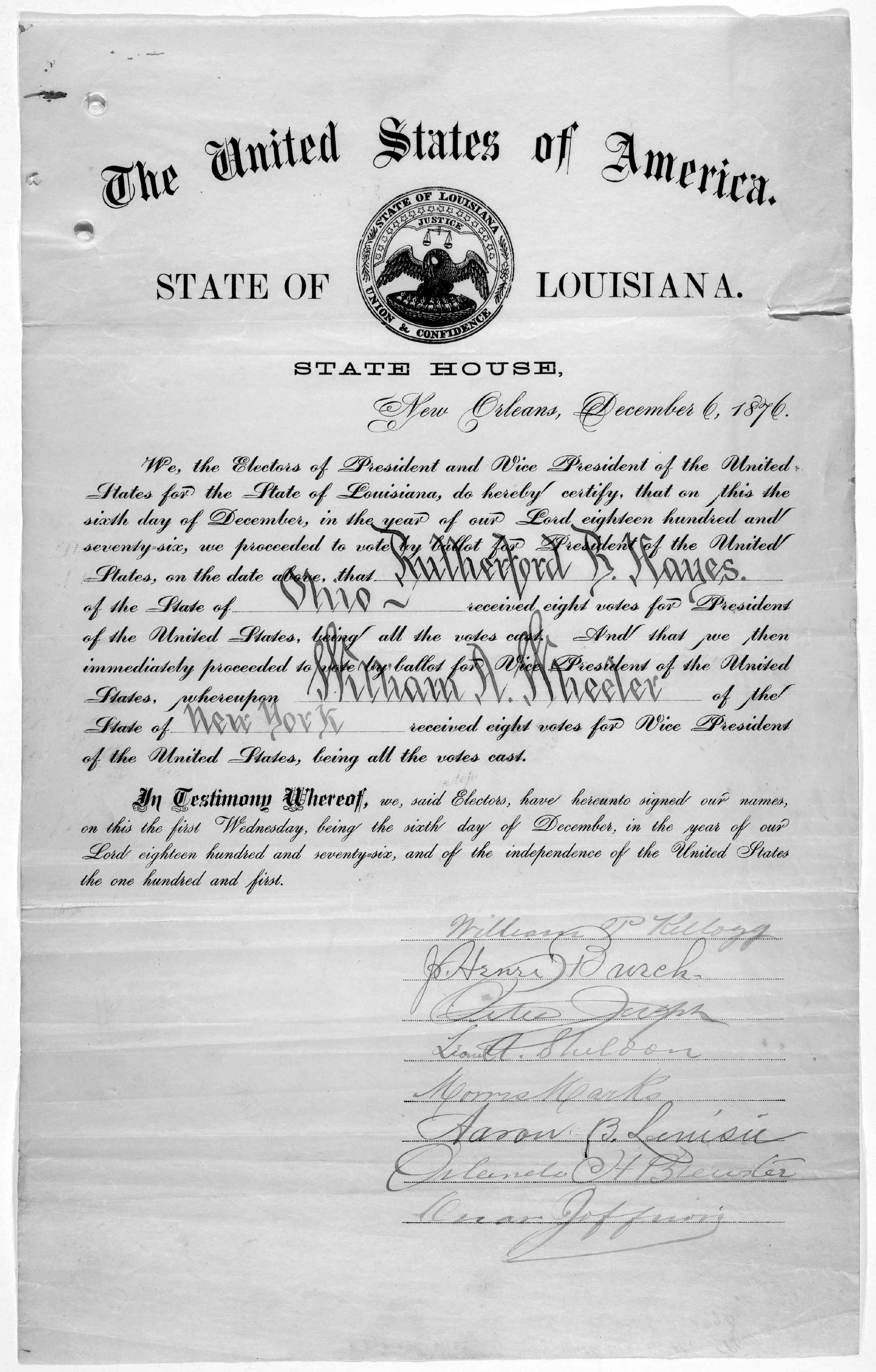 A certificate for the electoral vote for Rutherford B. Hayes and William A. Wheeler for the State of Louisiana dated 1876 part 6